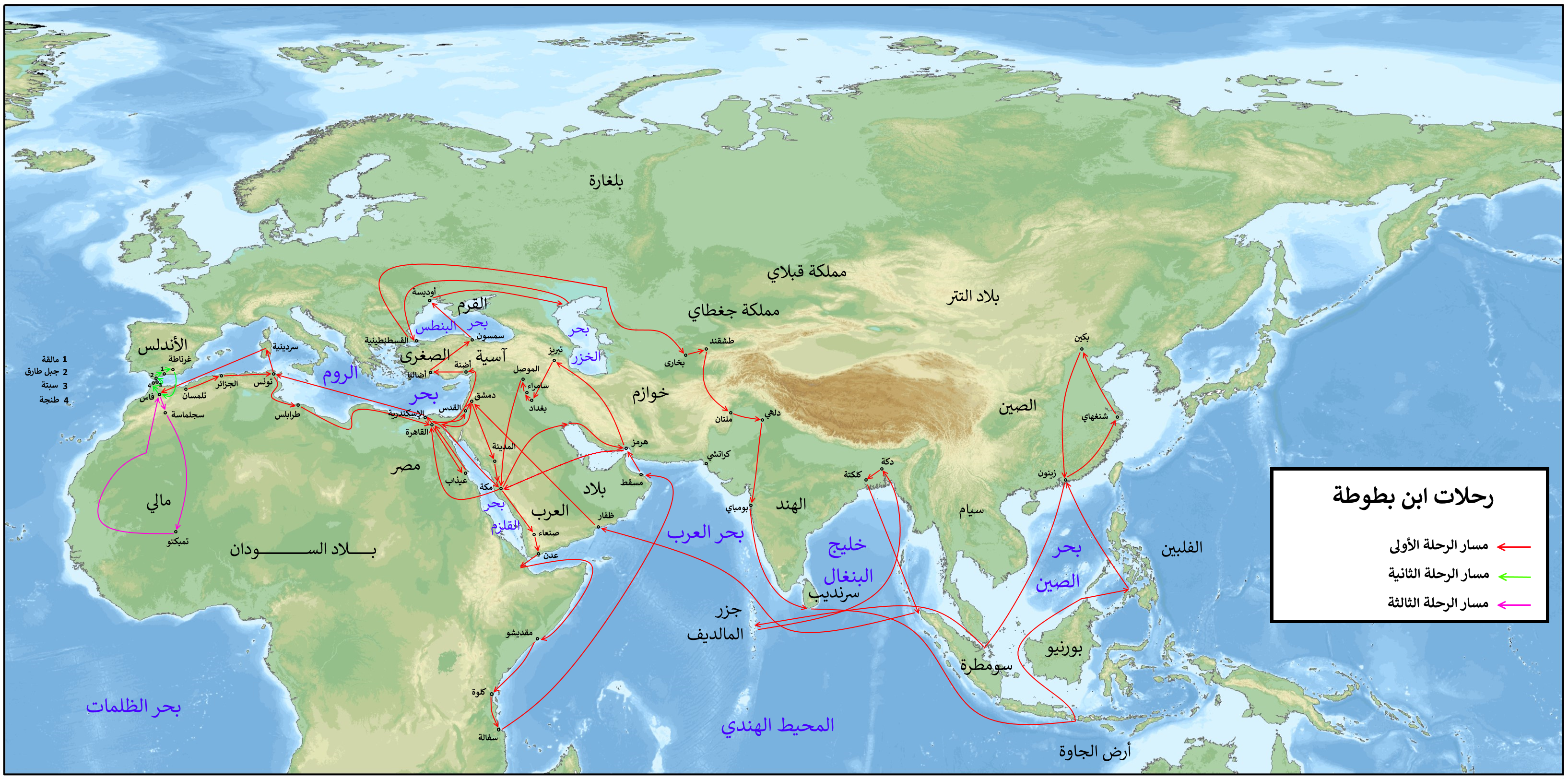 The routes of Ibn Battuta 's three journeys